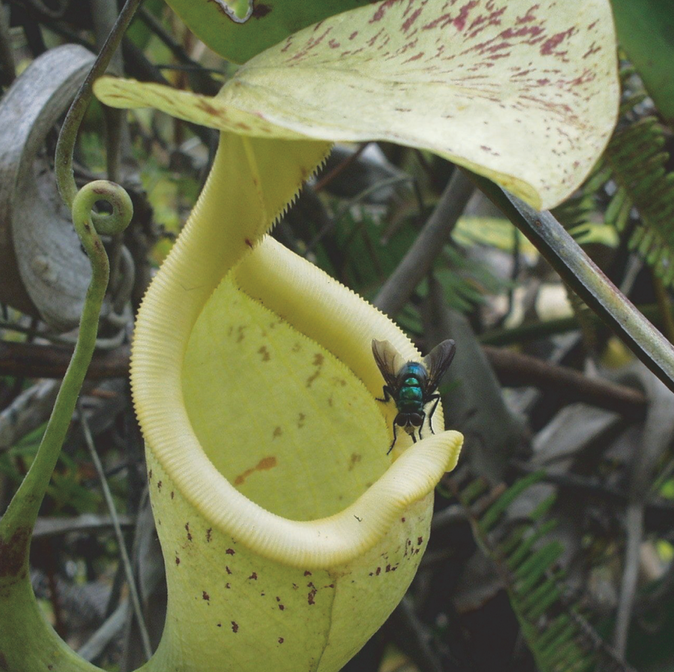 Pitcher of N. rafflesiana showing a Calliphora fly collecting extrafloral nectar in a perilous position (Brunei).